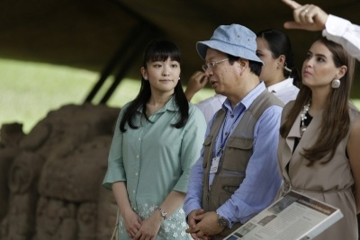 Seiichi Nakamura, Professor of the Center for Cultural Resource Studies, Kanazawa University, explained Maya Site of Copán to Princess Mako at Copán Sculpture Museum in Copán Ruinas Municipality, Copán Department on December 7, 2015.